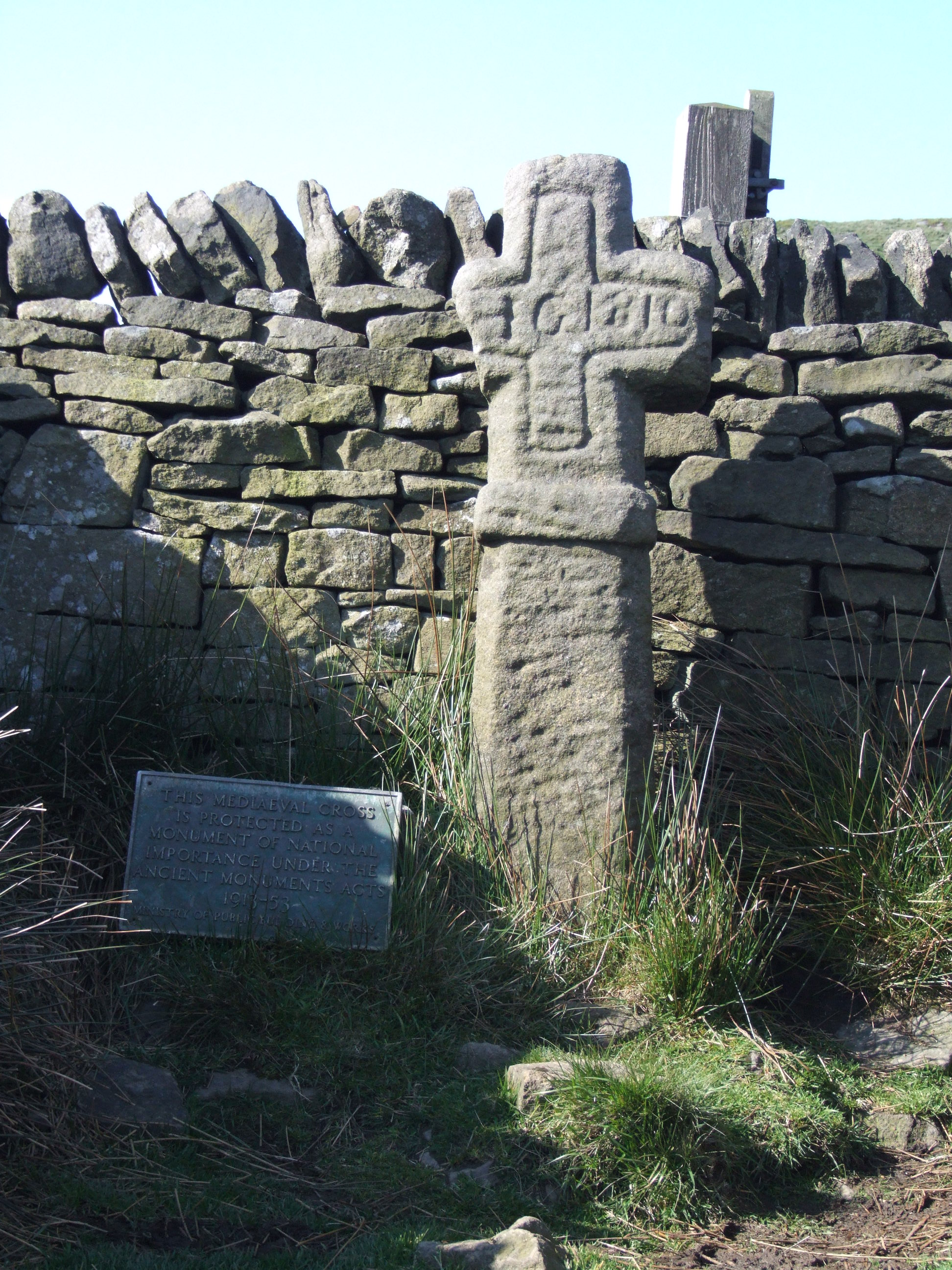 Kinder Scout is a moorland plateau (and mountain of over 600m) in the Derbyshire Peak District in the United Kingdom. There is a former packhorse route from Hayfield to Edale. Edale Cross - Google Maps - Google Earth